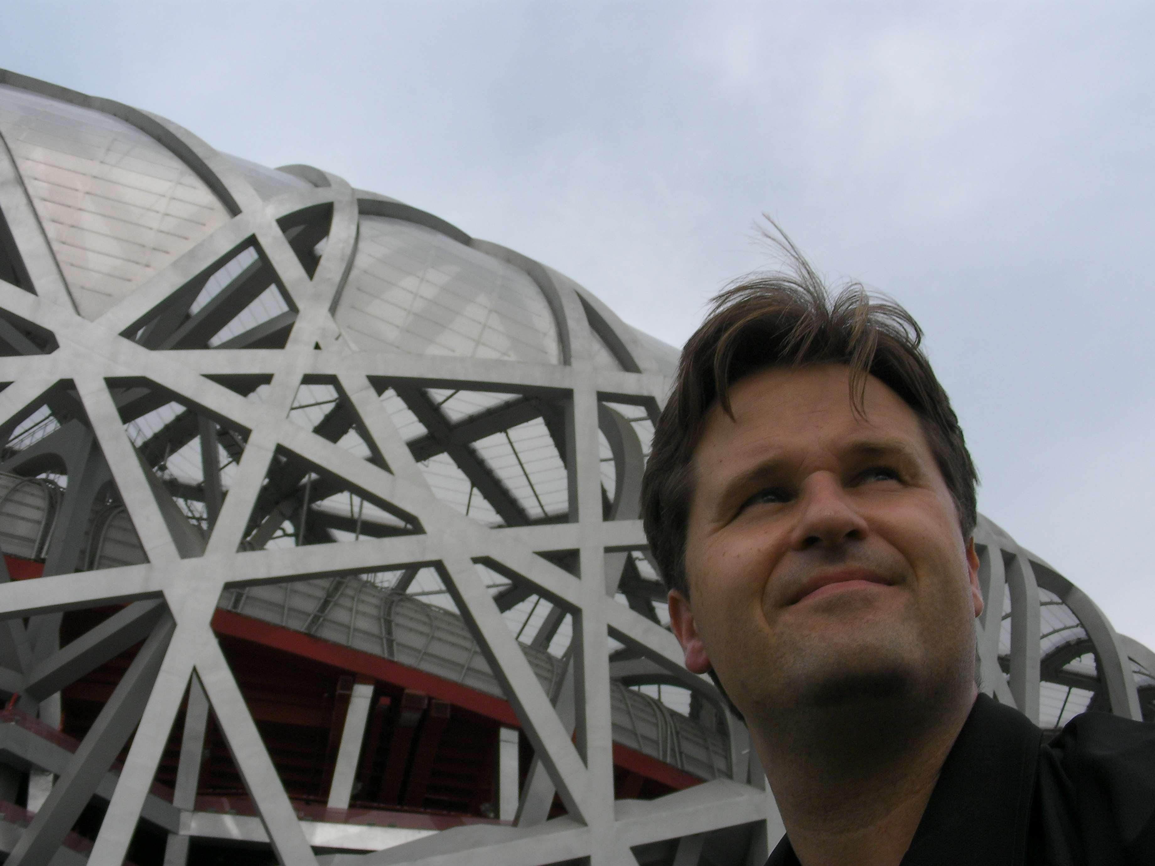 Philip Sheppard, composer and cellist, outside the Birds Nest Stadium, Beijing during the 2008 Olympic Games.